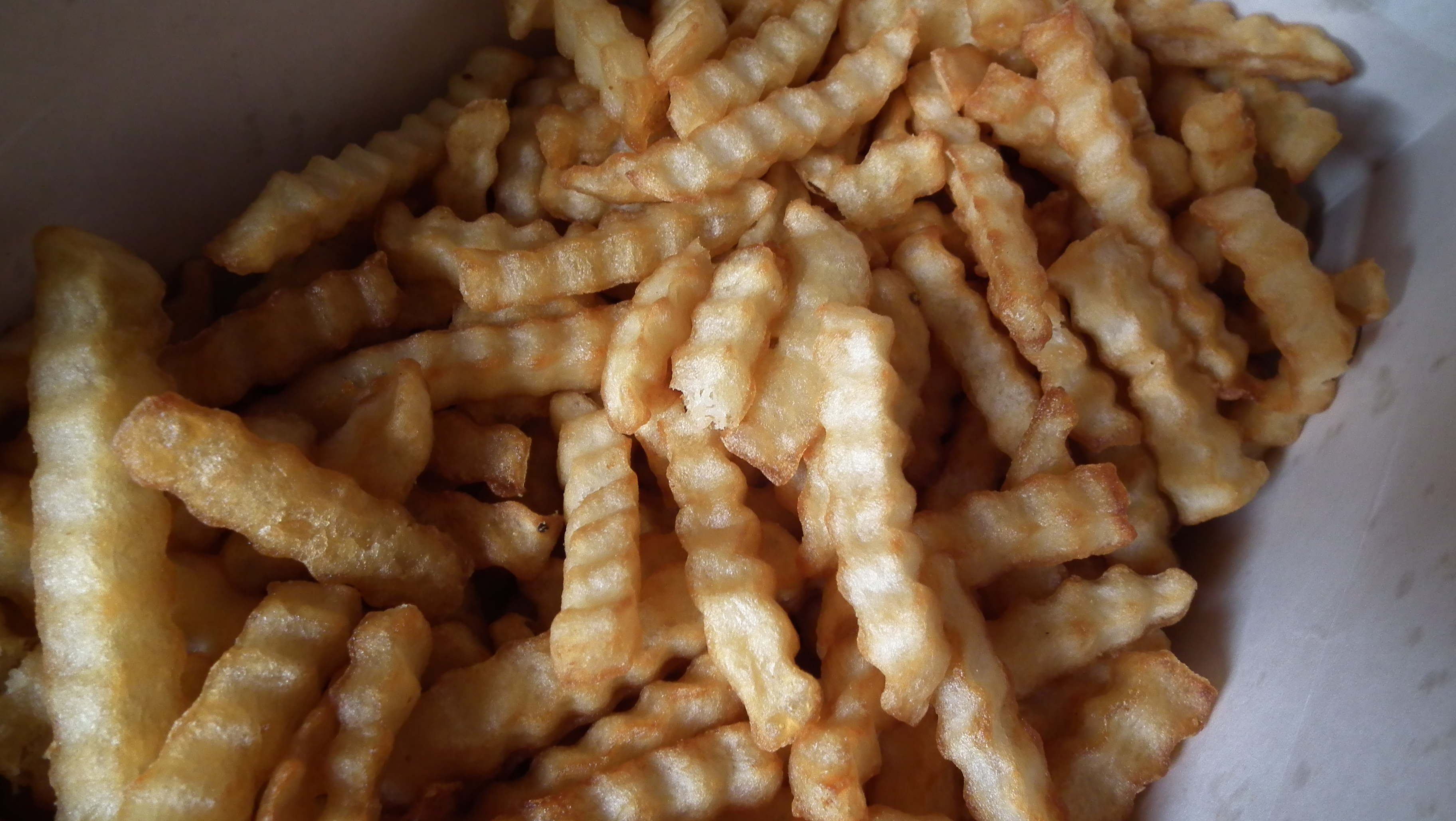 Wavy French fries sold in a Canadian supermarket.